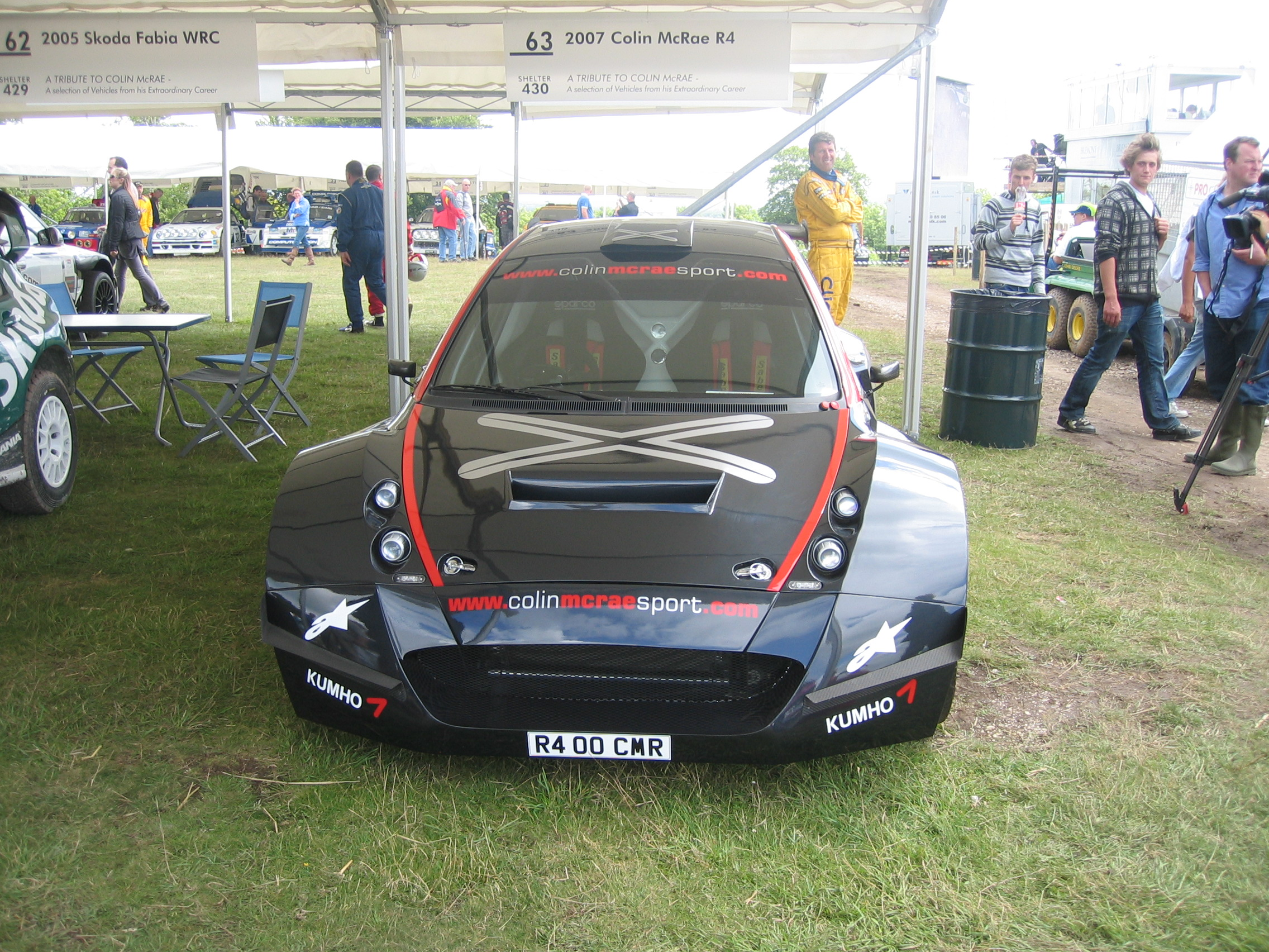 From Goodwood Festival of Speed 2008